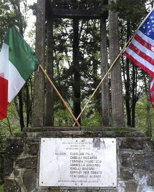 Plaque with Italian and American flags in the hills above Sommocolonia commemorating those who died fighting on December 26, 1944